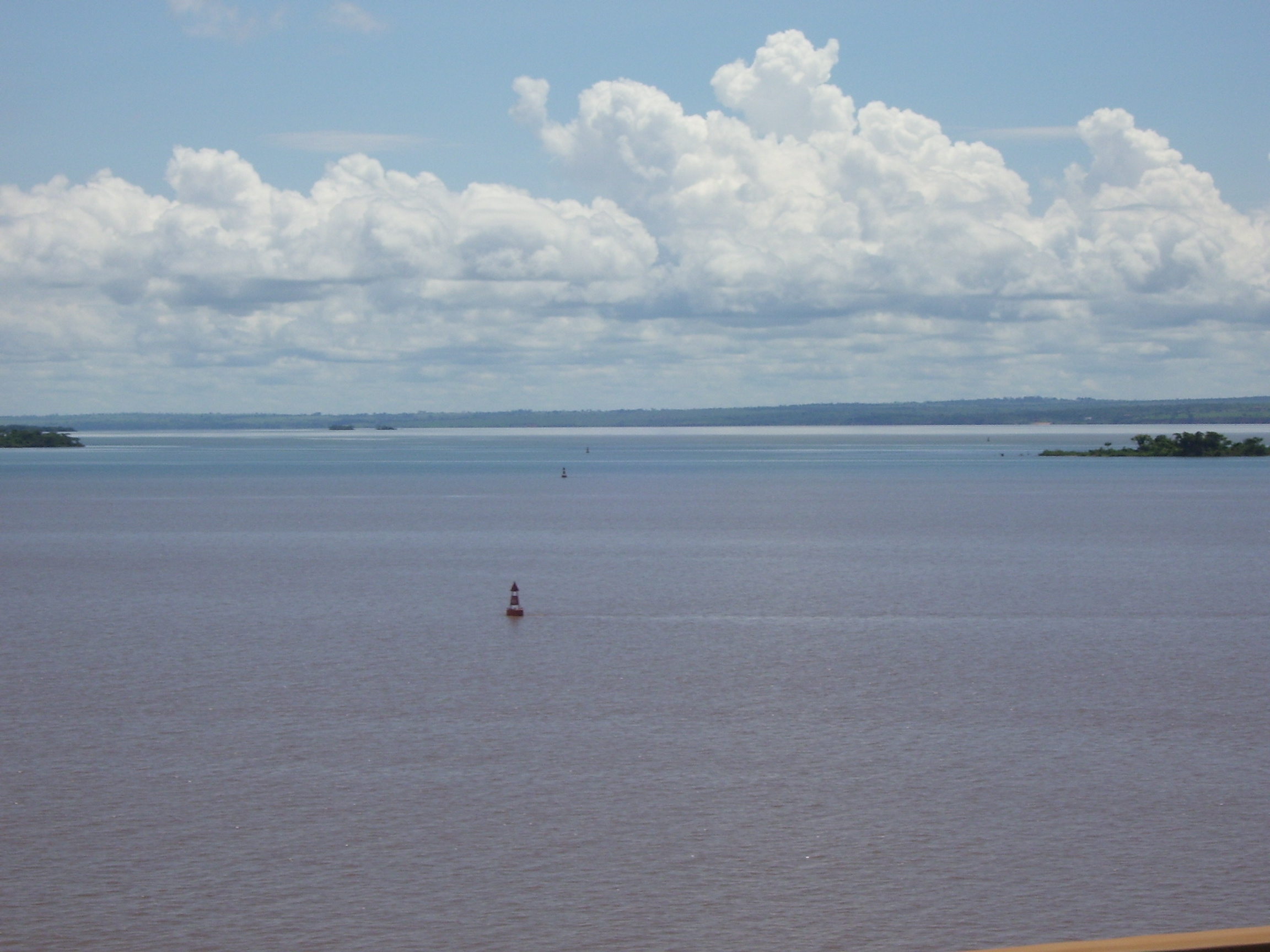 Lake of the hydroelectric dam "Engineer Sérgio Motta", in the Paraná River, between the Brazilian states of Mato Grosso do Sul and São Paulo. In the background, the state of São Paulo.